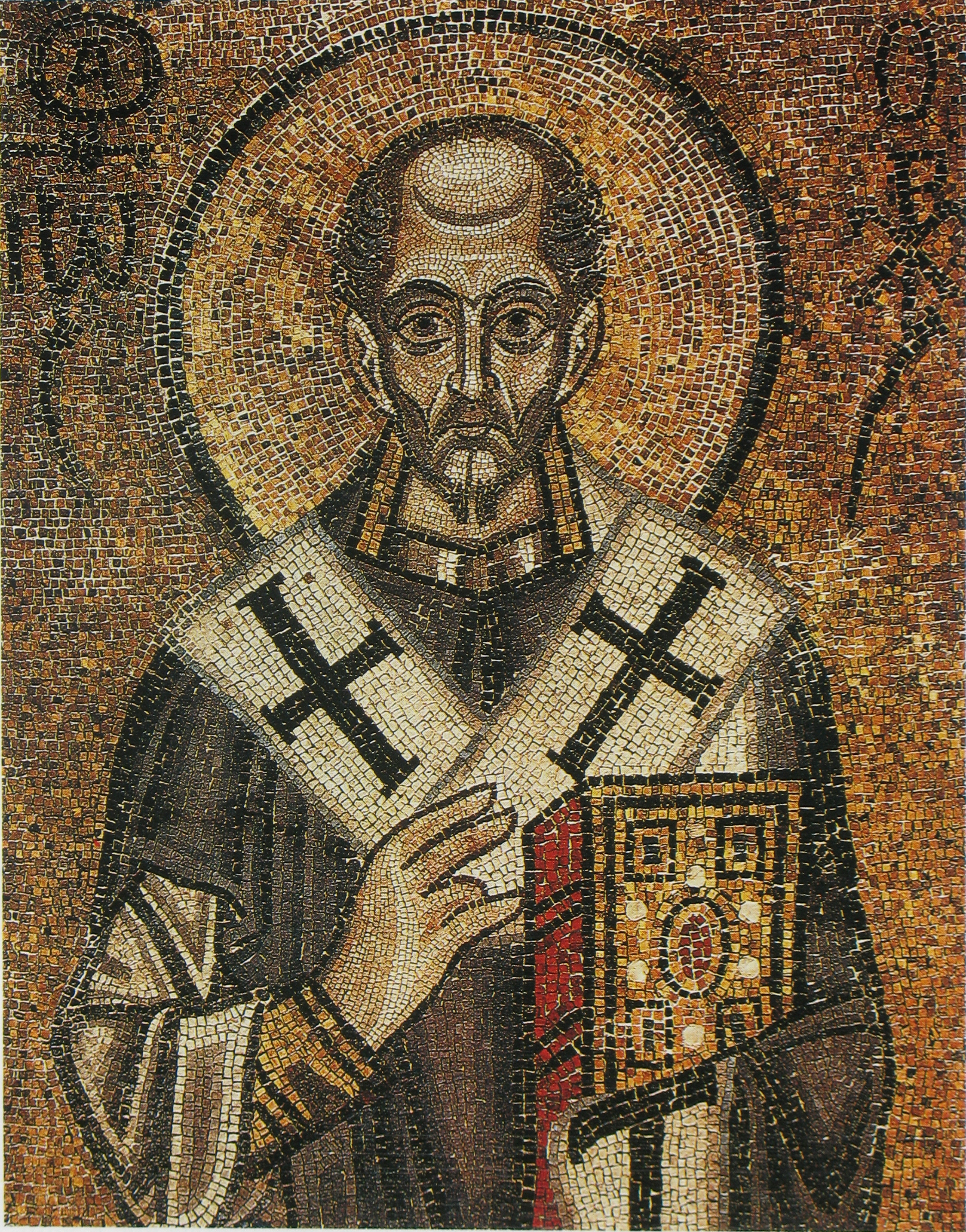 John Chrysostom (mosaic). Saint Sophia Cathedral, Kiev.